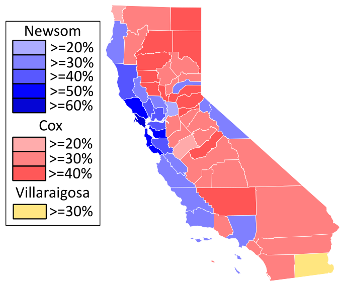 2018 California gubernatorial primary results by county